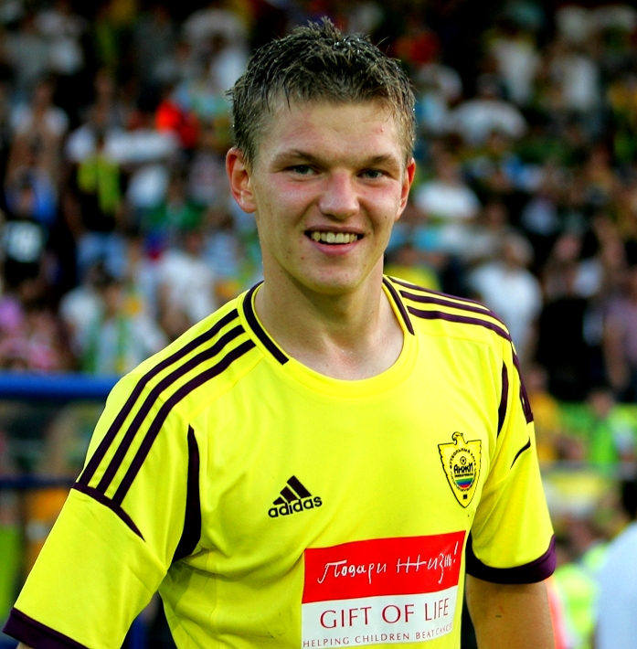 Oleg Shatov